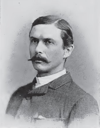 Alfred C. Chapin, Mayor of Brooklyn, 1888-1891, later a member of the U.S. Congress.